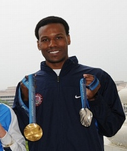 Detail of Shani Davis with Olympic Medals. Speaker Nancy Pelosi and Congressman Bart Stupak held a press availability this morning with medal-winning U.S. Olympic athletes Apolo Anton Ohno, Shani Davis, and Allison Baver and Paralympic athlete Allison Jones to discuss the B.J. Stupak Scholarship, a federally-funded scholarship program designed to provide financial assistance to Olympic athletes. Left-right: Bart Stupak, Allison Jones, Apolo Anton Ohno, Nancy Pelosi, Allison Baver, Shani Davis